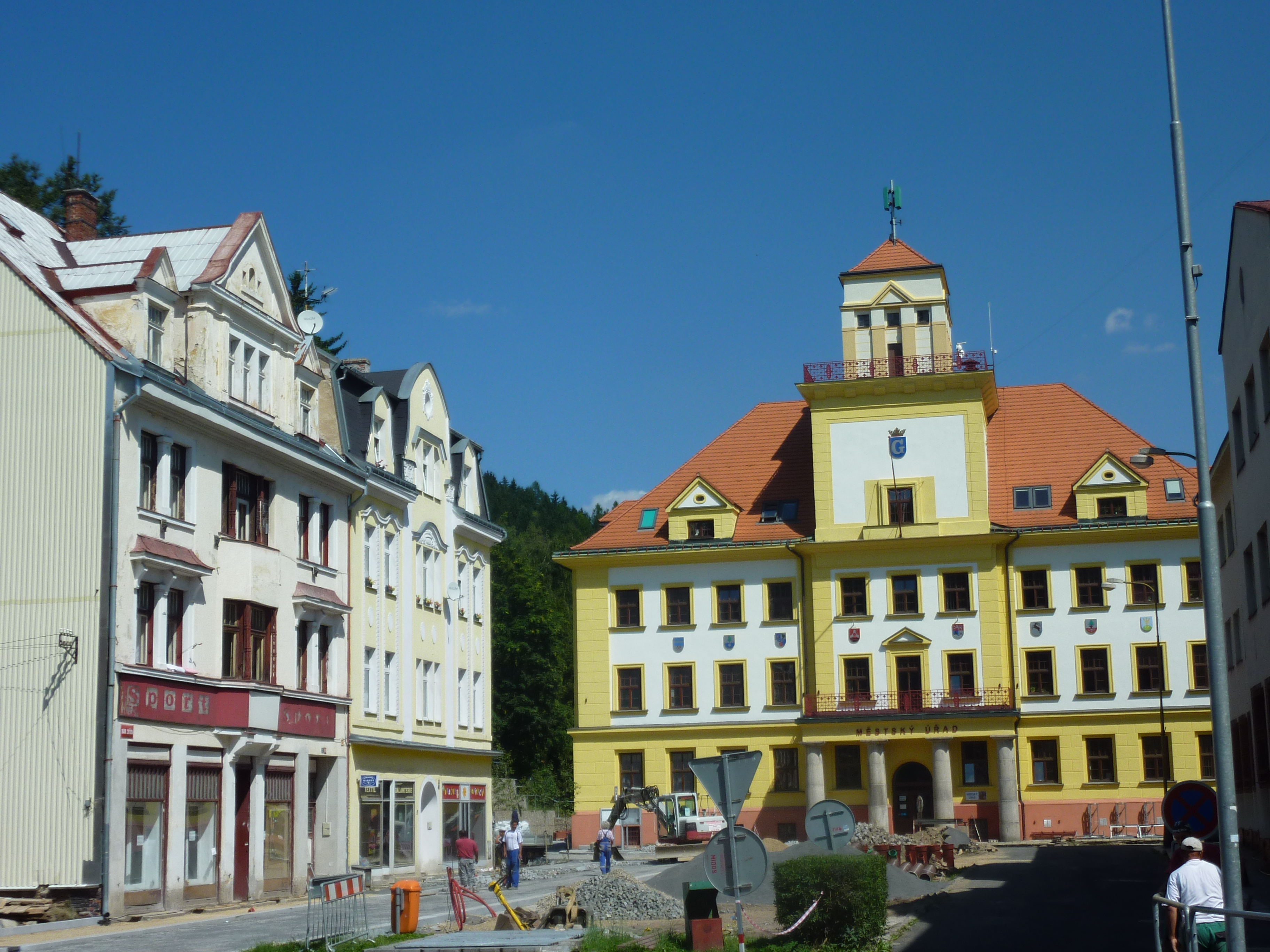 Kraslice (CZ): town hall